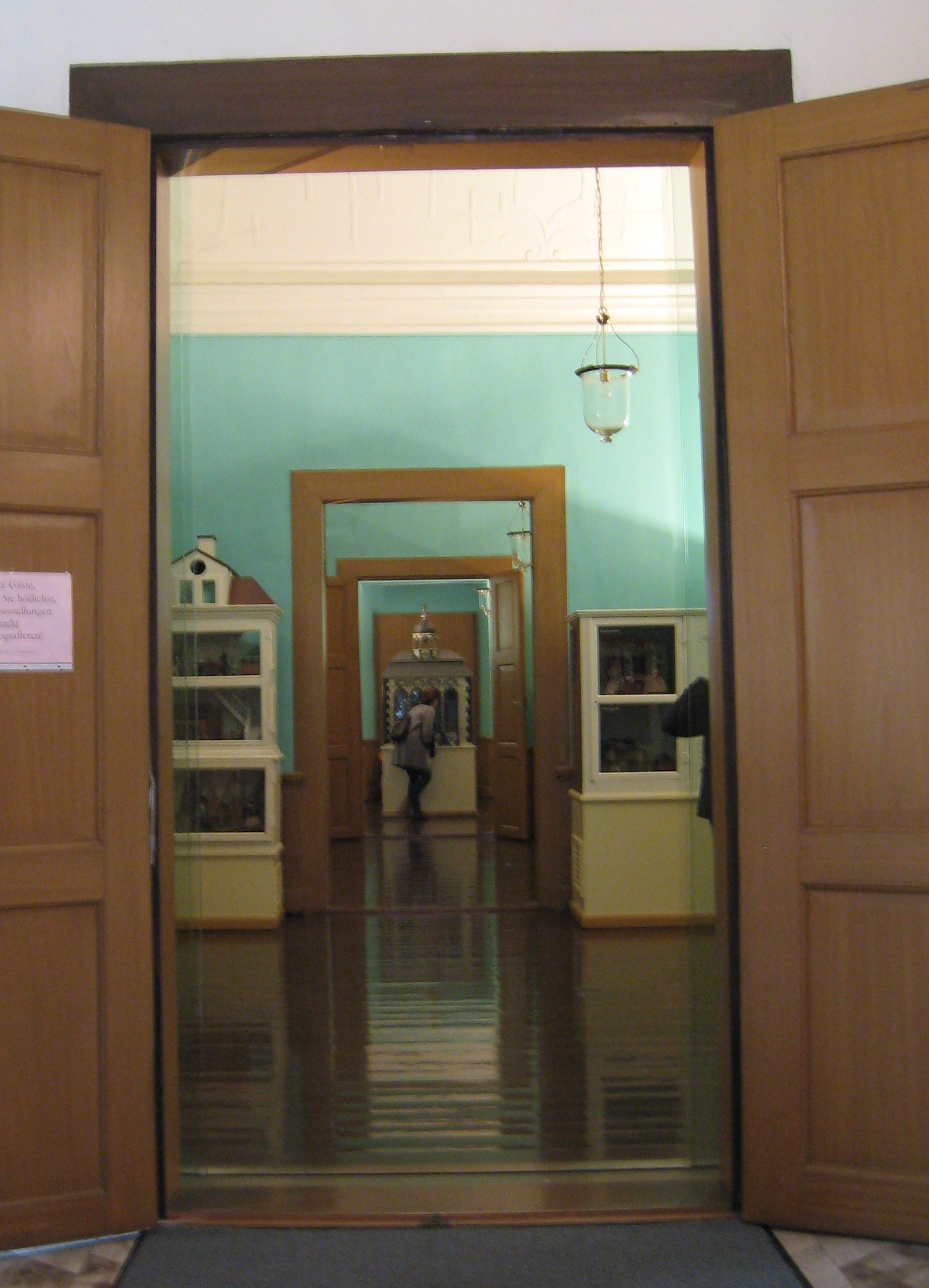 Entrance to Mon Plaisir, Arnstadt